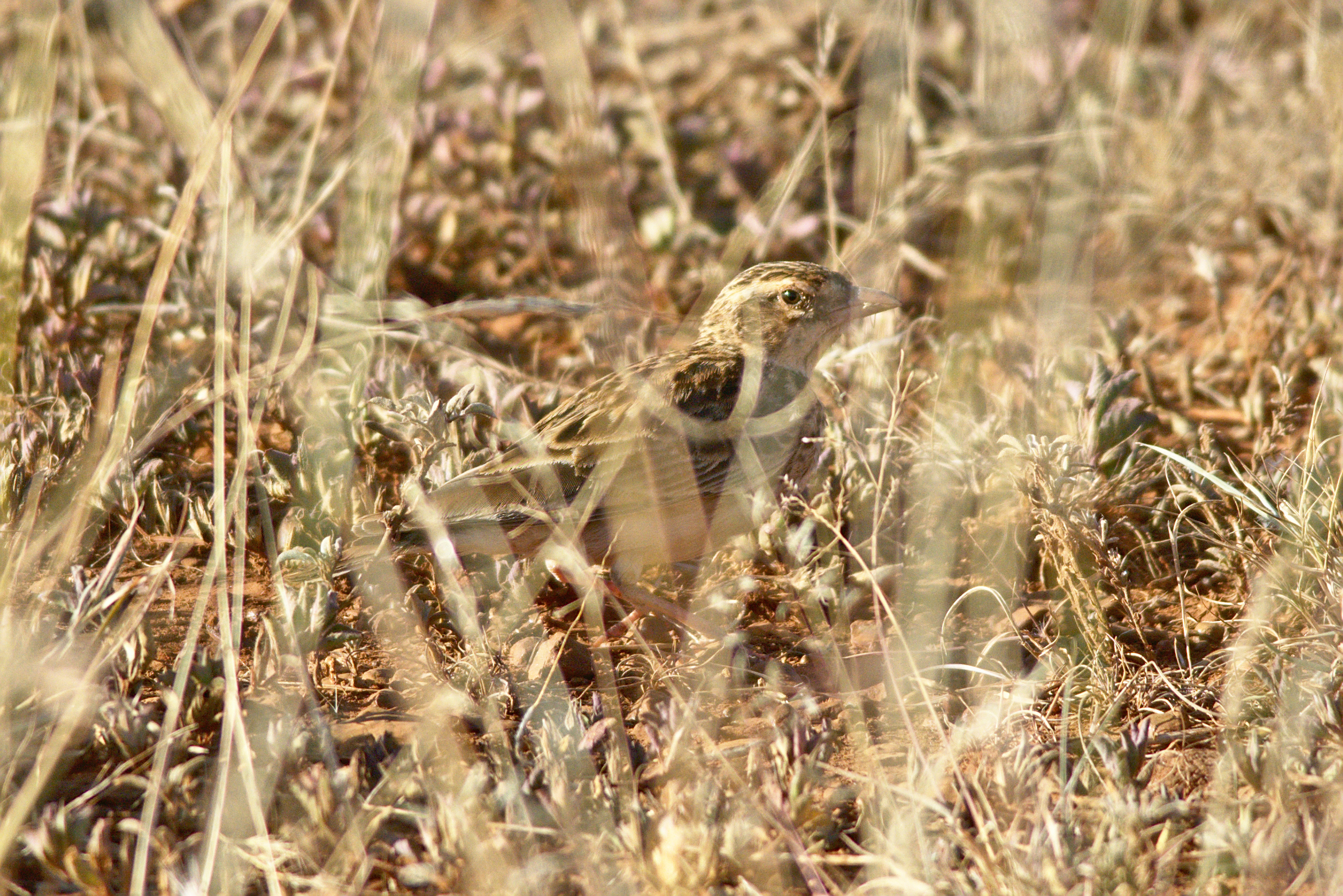 Somali Short-toed Lark Alaudala somalica, Liben Plain, Ethiopia